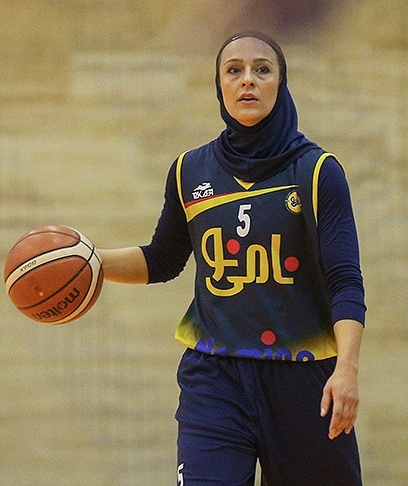 Iranian women basketball league Final - Mojgan Khodadadi